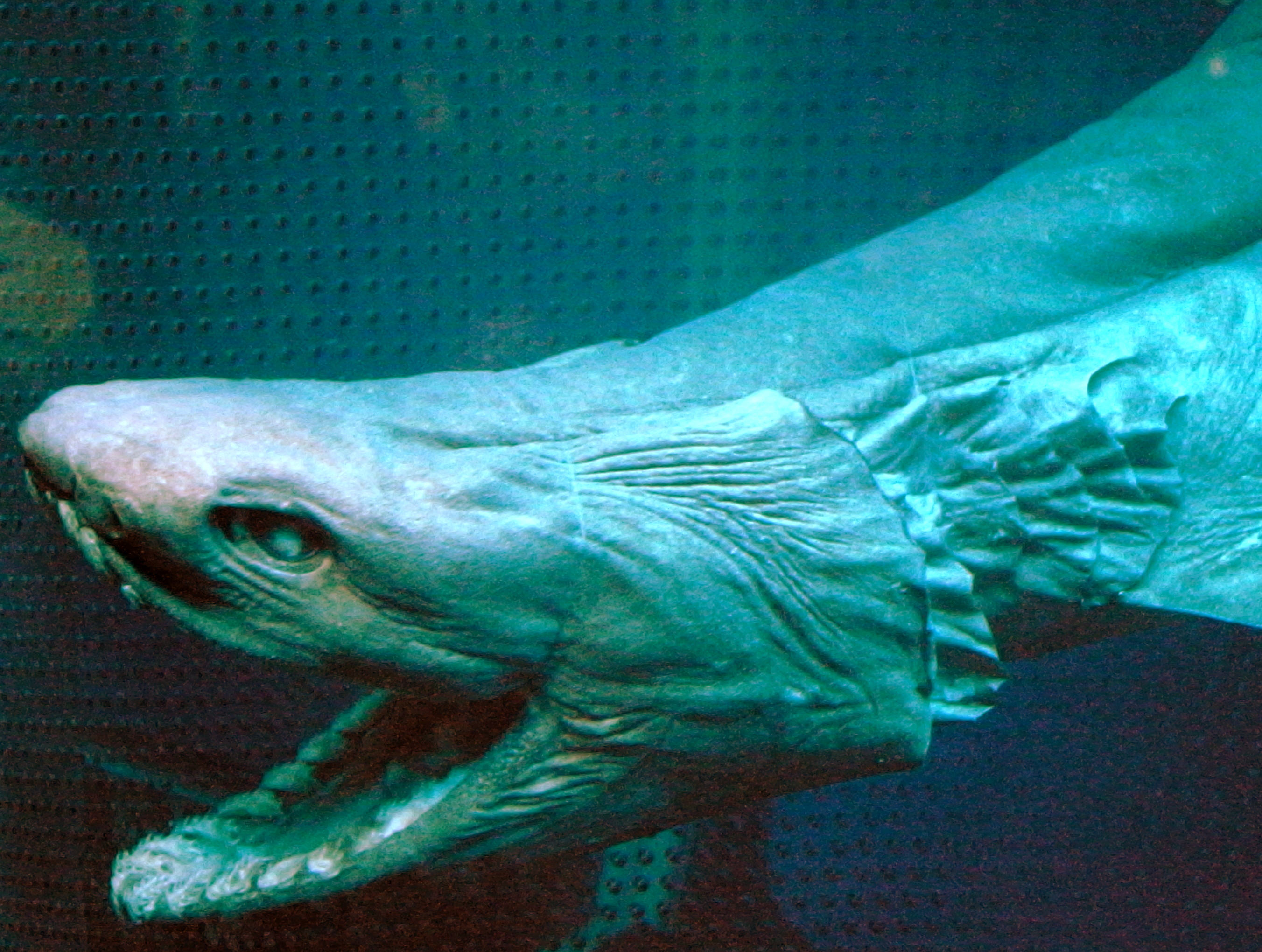 Frilled shark (Chlamydoselachus anguineus)